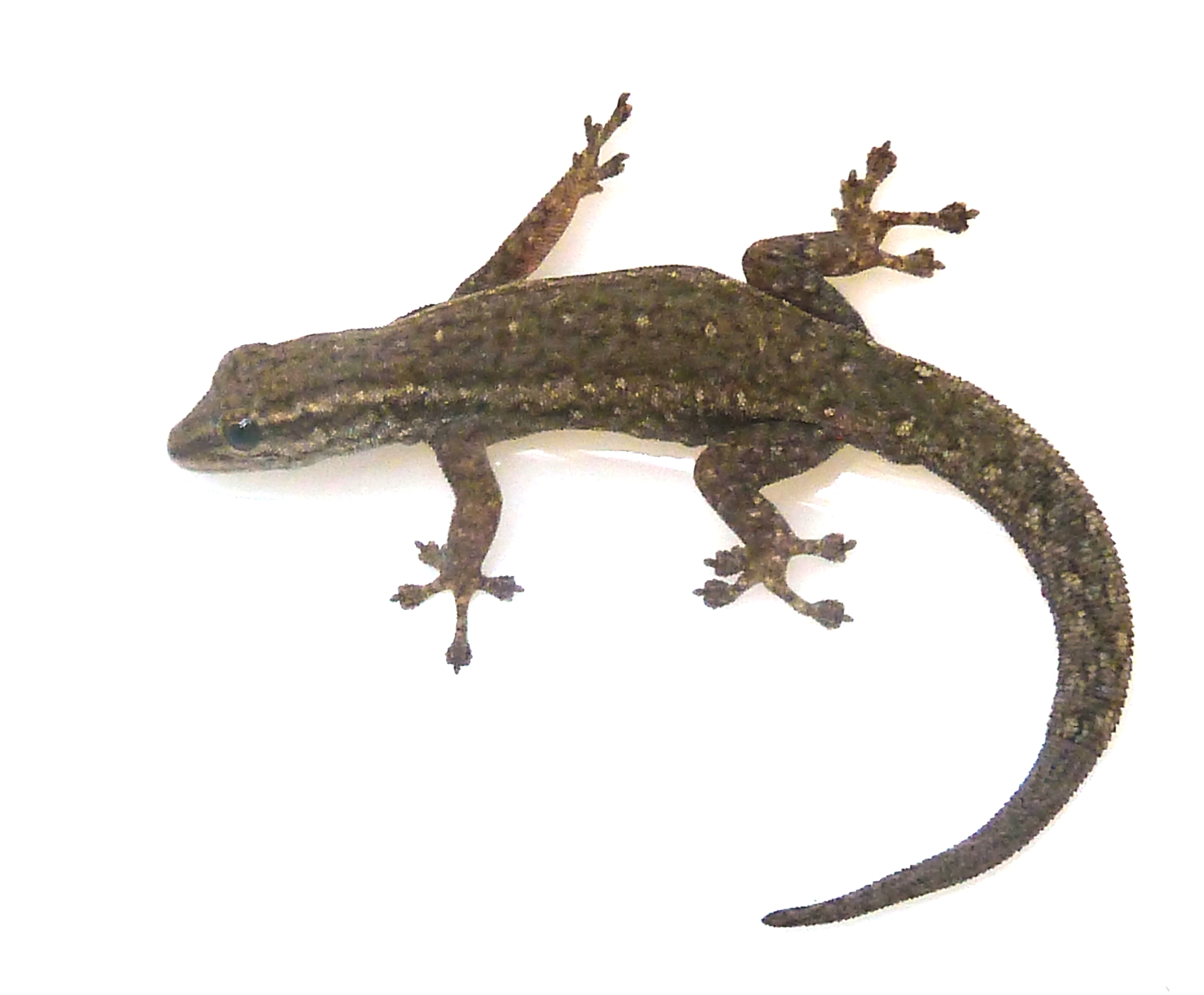 An immature Cape dwarf gecko in Pretoria